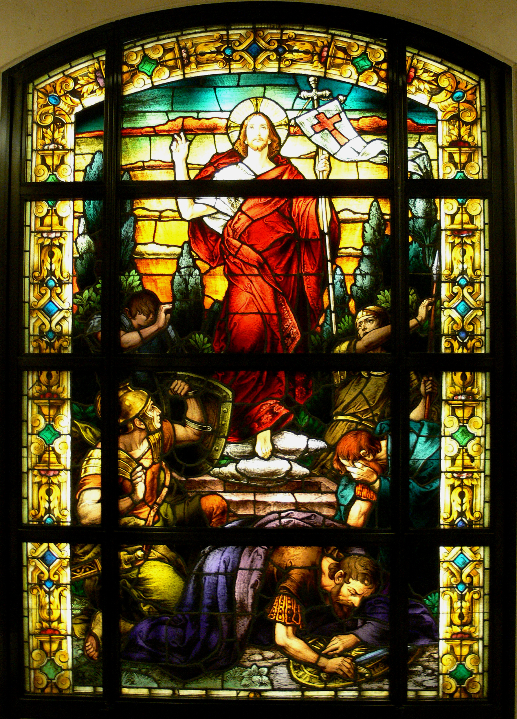 Stained glass windows in the Mausoleum of the Roman Catholic Cathedral of Our Lady of the Angels, Los Angeles, California; originally created in the 1920s for Saint Vibiana Cathedral, Los Angeles Resurrection of Christ